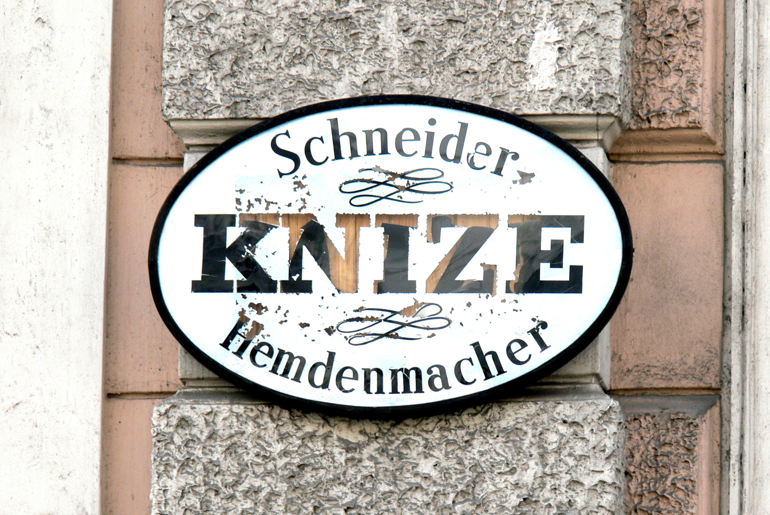 Graben, Vienna. Shop sign of a shirt maker.